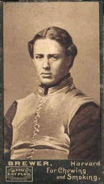 Mayo's Cut Plug football card of Charley Brewer